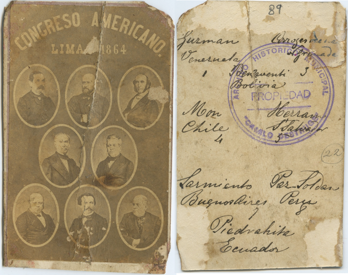 Anverso: Congreso americano. Lima 1864. Reverso: Escrito con estilógrafo "Guzmán Venezuela, Bolivia, Venezuela, Chile, El Salvador, Buenos Aires, Perú, Ecuador." Vicente Piedrahíta, Juan de la Cruz Benavente, José Gregorio Paz Soldán